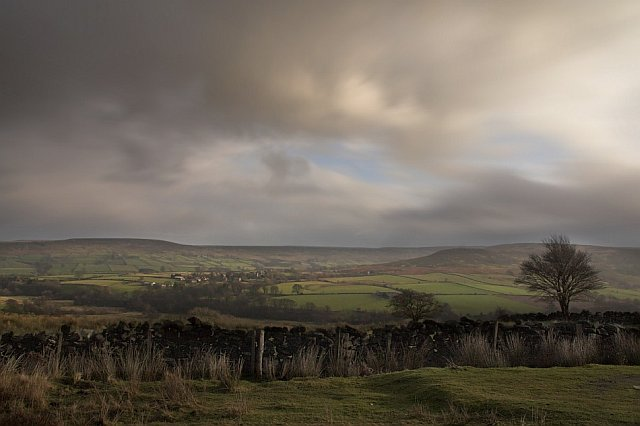 Westerdale from John Breckon road. Wide angle view of part of Westerdale including the village. Taken from the John Breckon road on the West side of the dale.